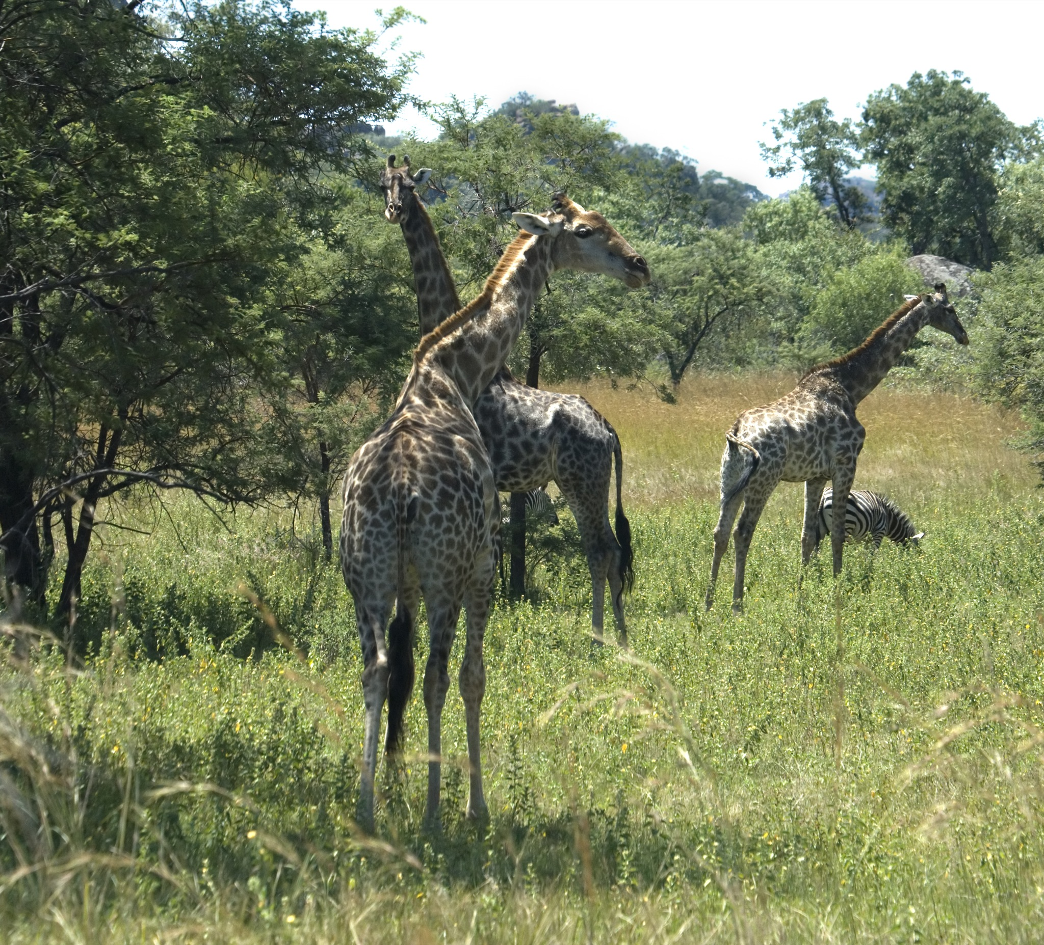 Giraffe in Matopos National Park, Zimbabwe. Zebra hang out with them and use them as their lookouts for predators.